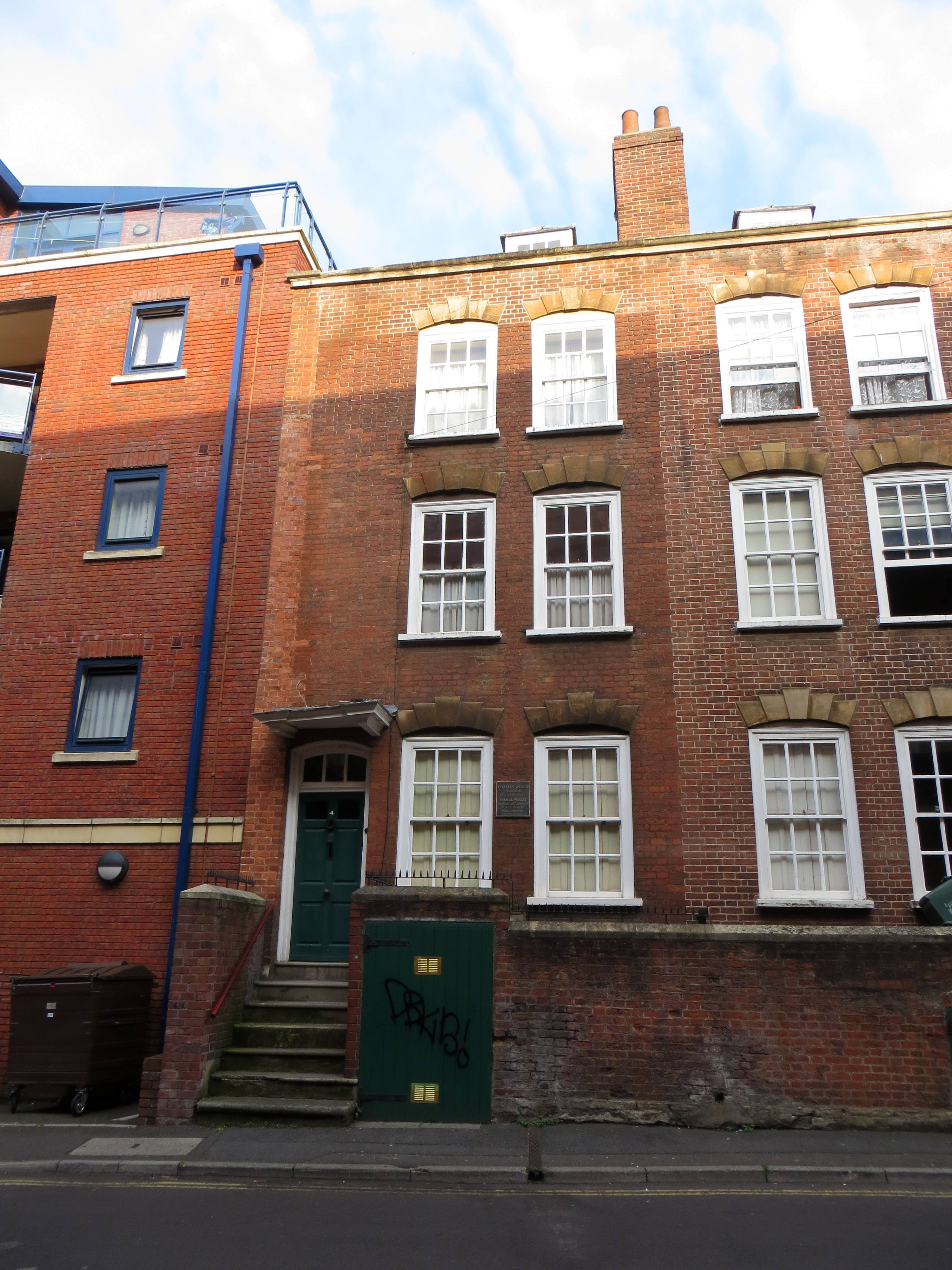 Bristol home of leading Methodist, Charles Wesley and his family